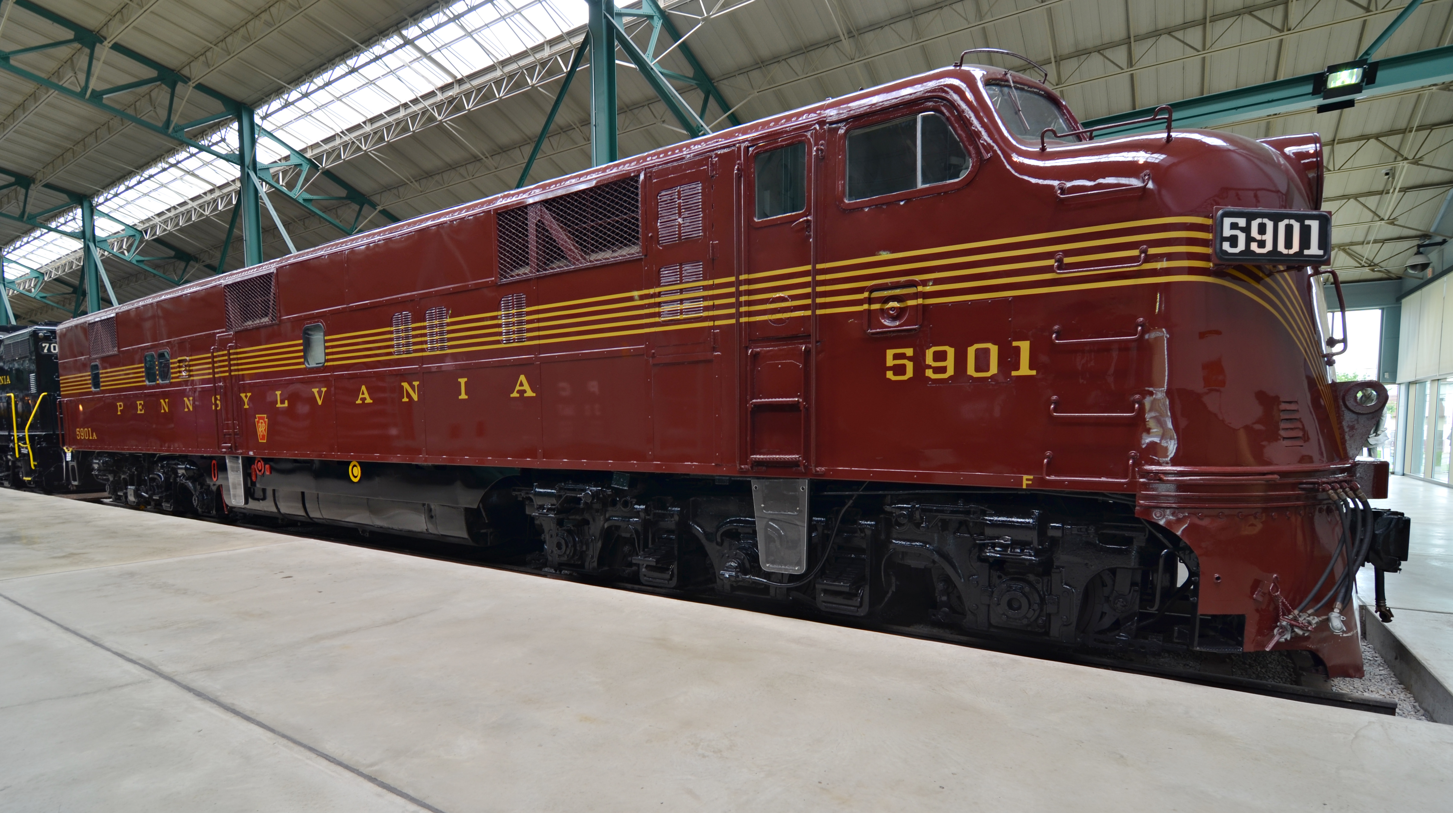 The Pennsylvania Railroad 5901 at the Railroad Museum of Pennsylvania. The car is listed on the roster as RR76.37.